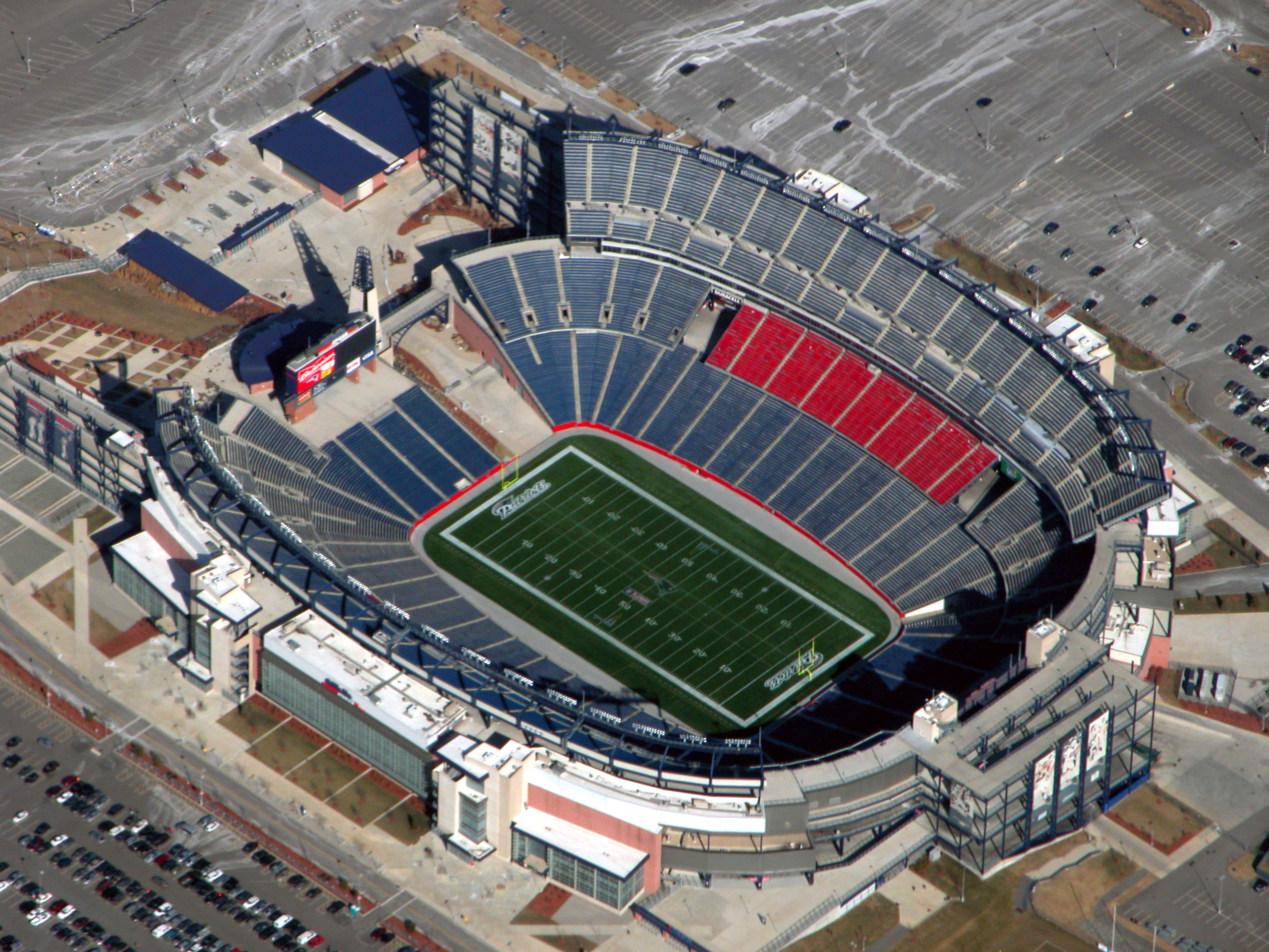 Gillette Stadium (Top View)